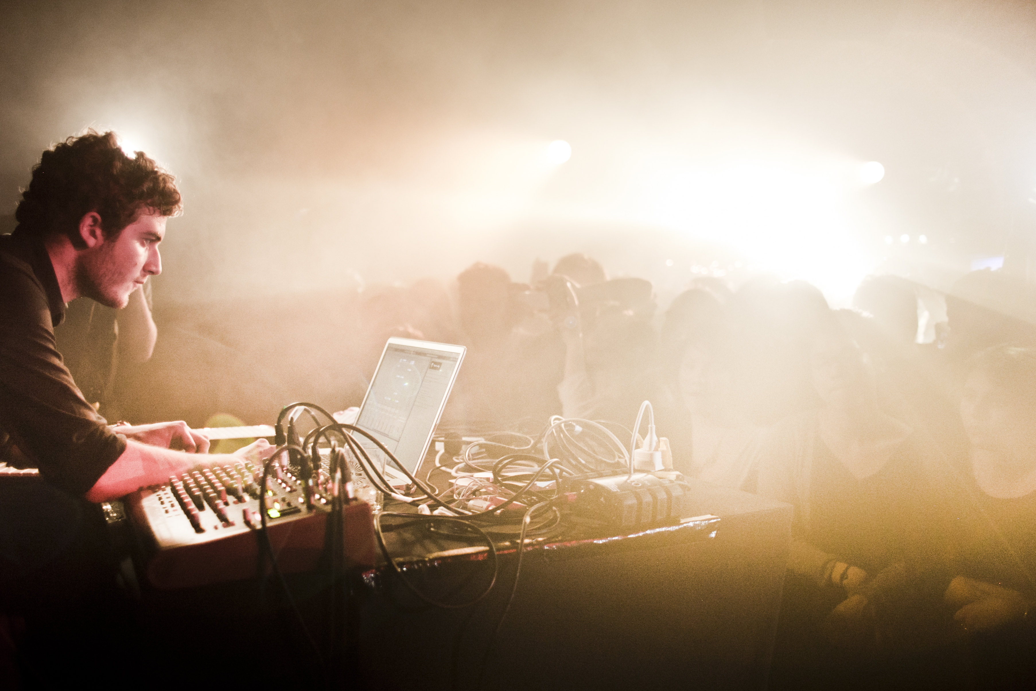 Nicolas Jaar playing live with his band at the Rex Club in Paris in April 2011.